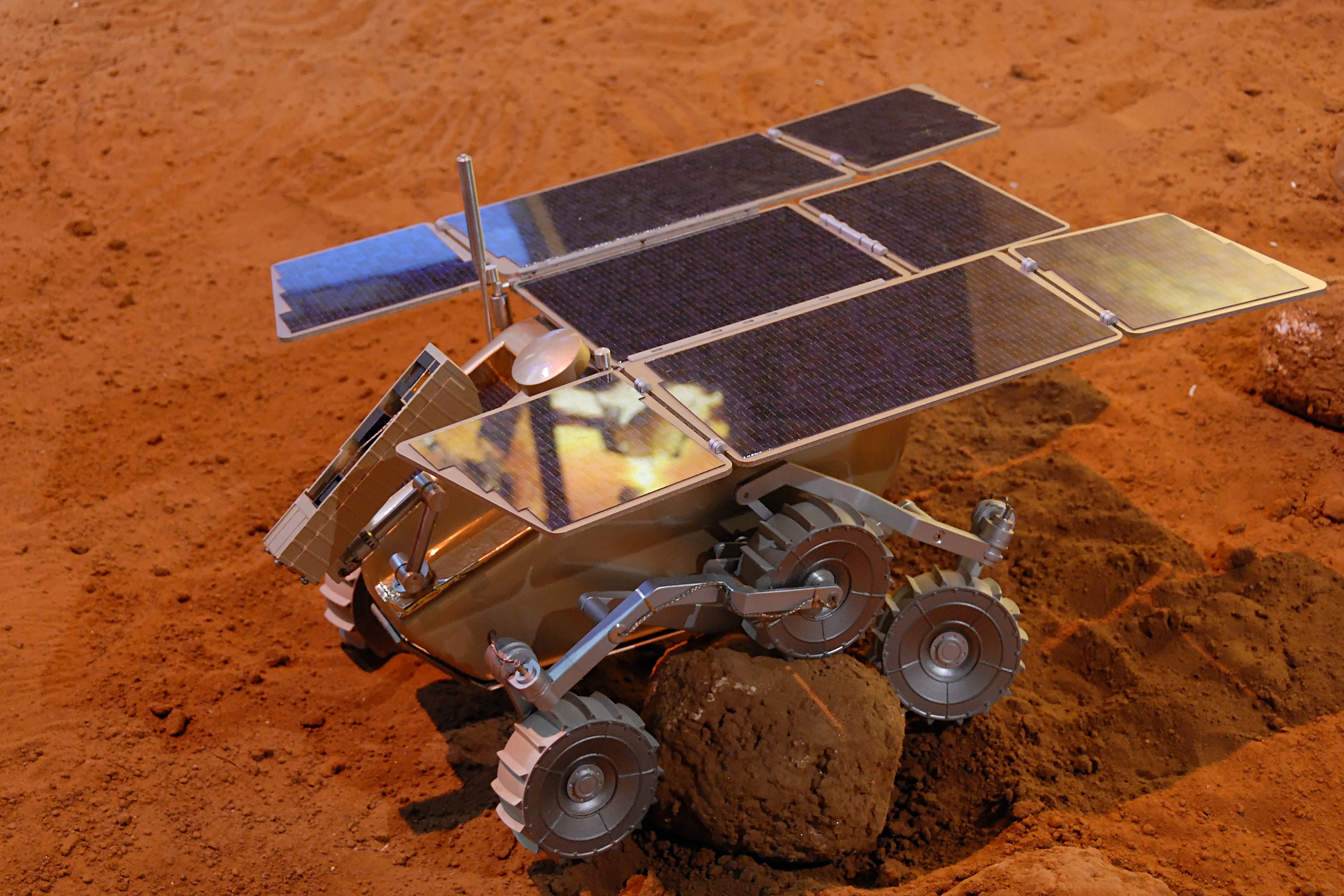 A 1:4 model of the ExoMars rover at the ESA pavilion, 2007 International Paris Air Show at the Le Bourget airport.